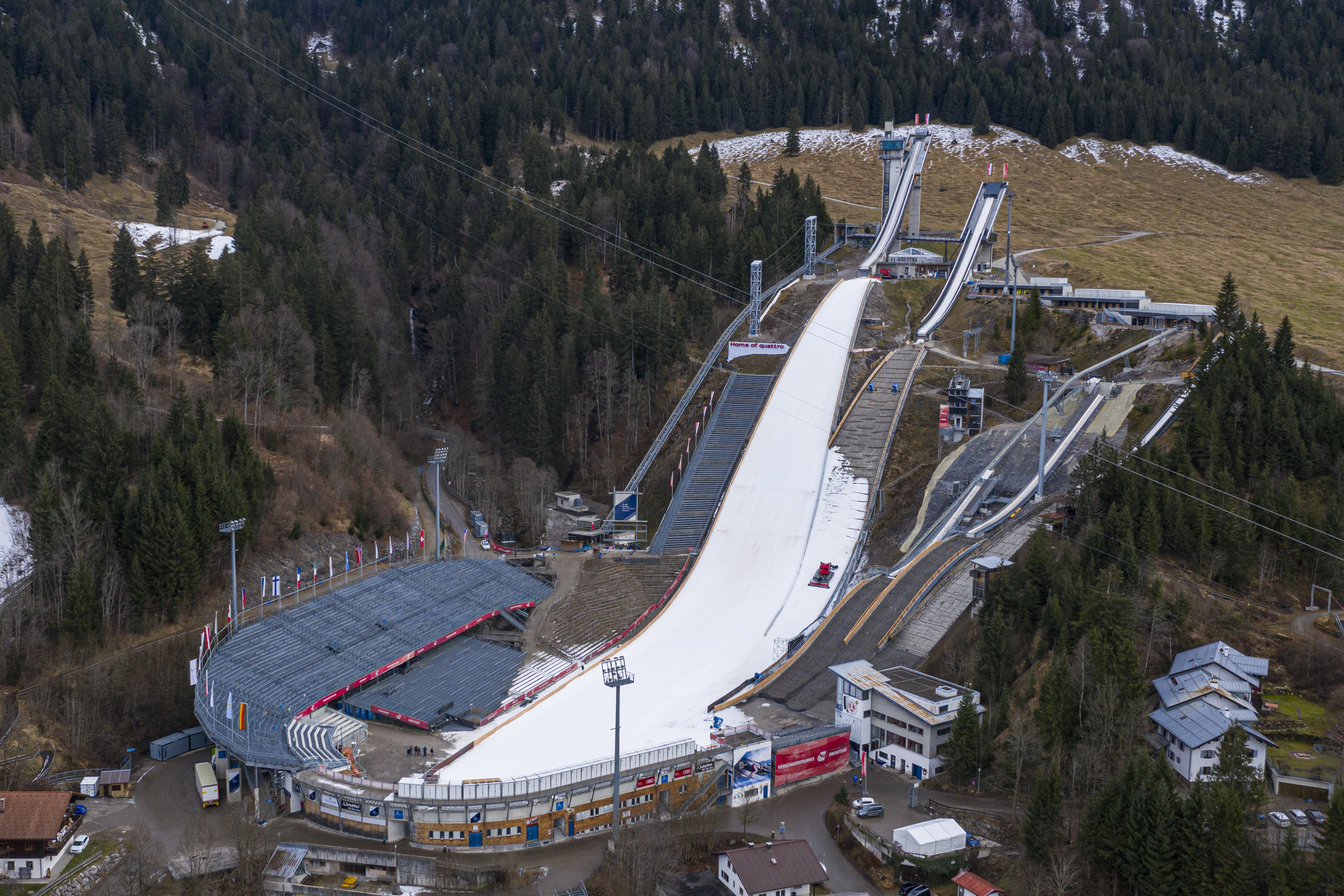 Schattenbergschanze is a ski jumping hill located in Oberstdorf, Bavaria, Germany.